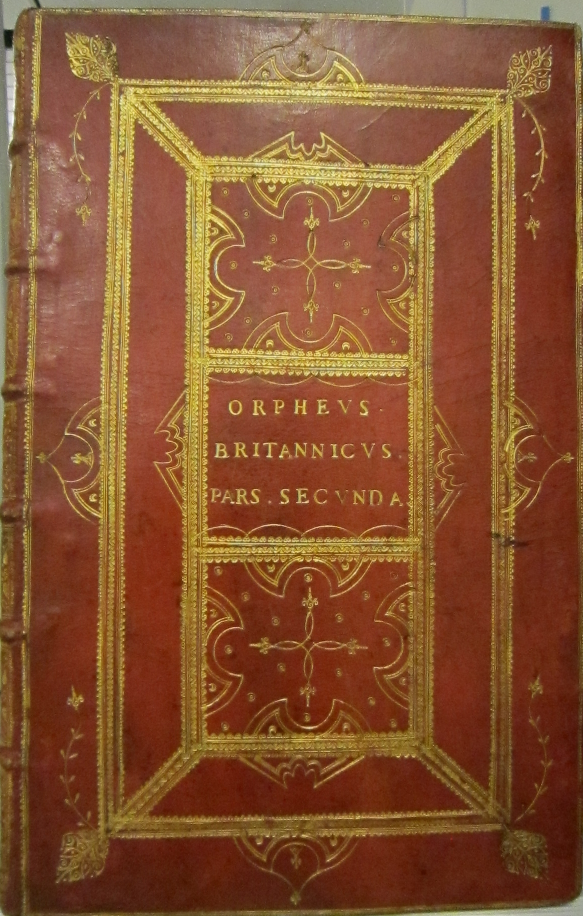 Style: Lettered cover, eg intitals, titles|Panel design; Caption: Upper cover low resolution; Colour: Red; Edge: Unspecified